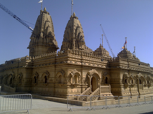 The Shree Sanatan Hindu Mandir in Wembley, London